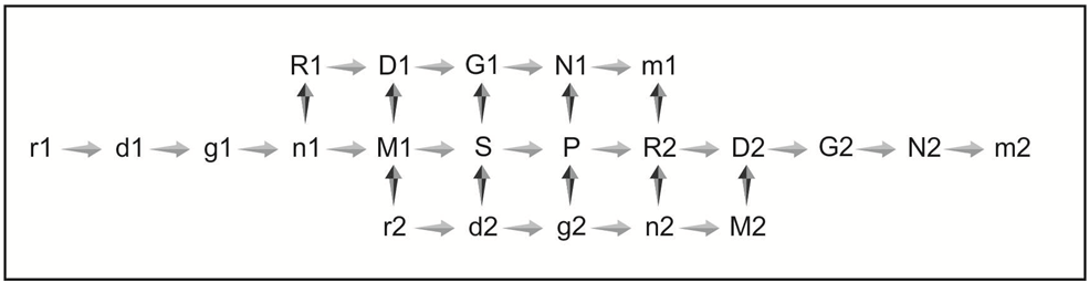 22 Shruti-Mandal (Organogram)